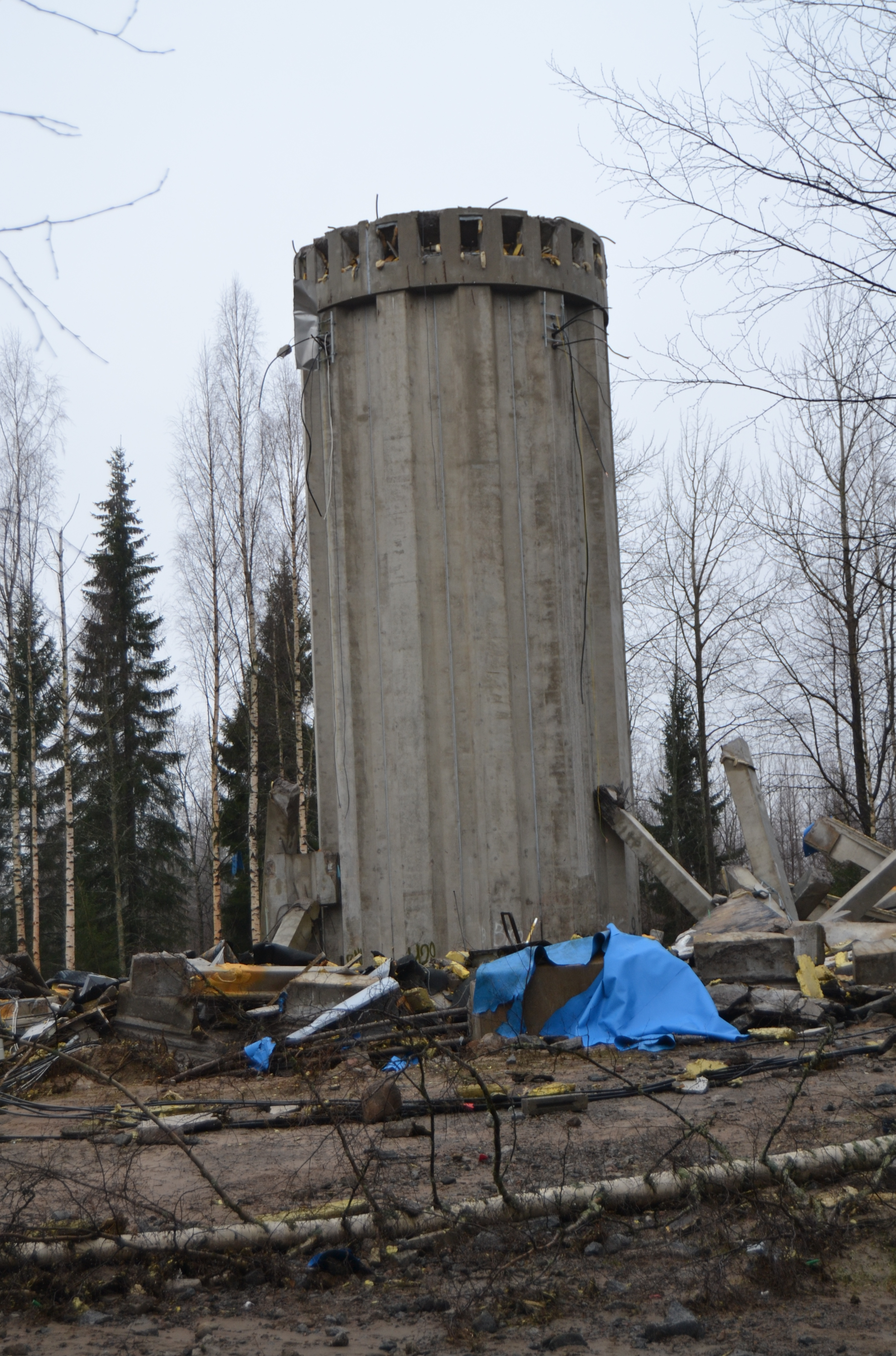 Collapsed Kangasvuori water tower in Jyväskylä, Finland